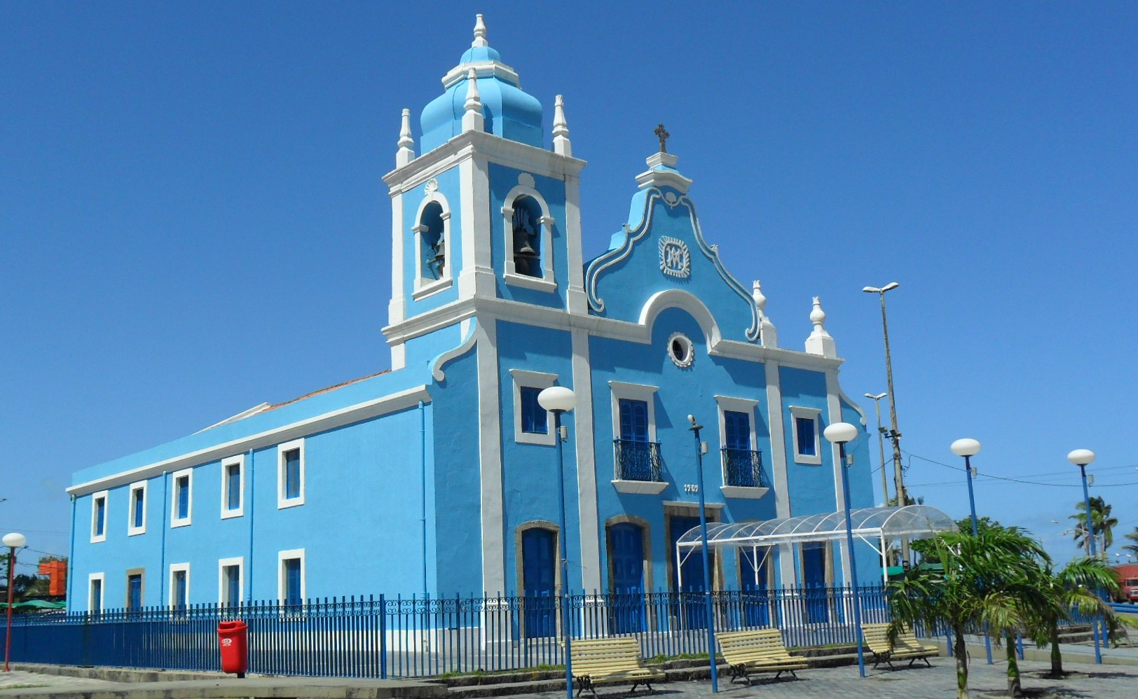 Our Lady of Boa Viagem church in Recife, Pernambuco, Brazil